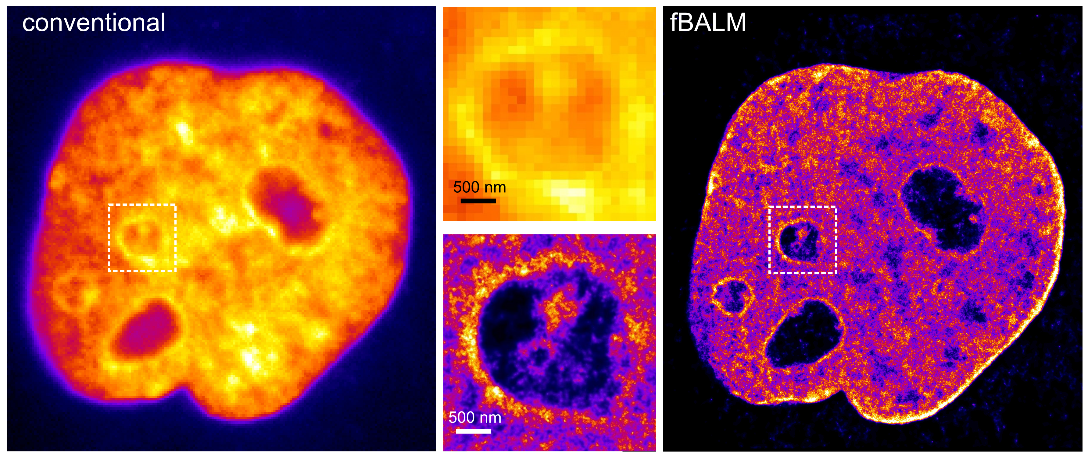 Super-resolution single molecule localisation microscopy using DNA structure fluctuation assisted binding activated localisation microscopy (fBALM). Left – conventional diffraction limited image of the DNA in a HeLa cell labelled with a fluorescent DNA-binding dye. Major nuclear structures just as nucleoli are clearly visible. Note a poor contrast. Right – fBALM super-resolution image of the same HeLa nucleus. The image has been reconstructed from more than 2x106 single molecule signals acquired from the nucleus undergoing stochastic changes to DNA structure due to the specific chemical environment provided. The local DNA structure instability disables fluorescence in the vast majority of the cases whereas the stochastic local DNA stability enables transient fluorescence emission from a single DNA binding site. This methodology yields a structural resolution in the range of 50 nm. For more details see reference: Imaging chromatin nanostructure with binding-activated localization microscopy based on DNA structure fluctuations Aleksander Szczurek, Ludger Klewes, Jun Xing, Amine Gourram, Udo Birk, Hans Knecht, Jurek W. Dobrucki, Sabine Mai, Christoph Cremer. Nucl Acids Res (2017) Published: 13 January 2017 Square inset demonstrates an enlarged image of a nucleolus. Scale bar corresponds to 500 nm.